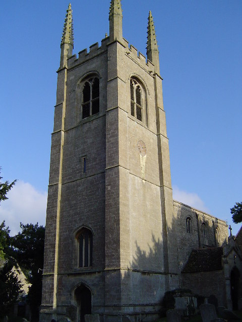 West tower of St Andrew's parish church, Collyweston, Northamptonshire, seen from the southwest